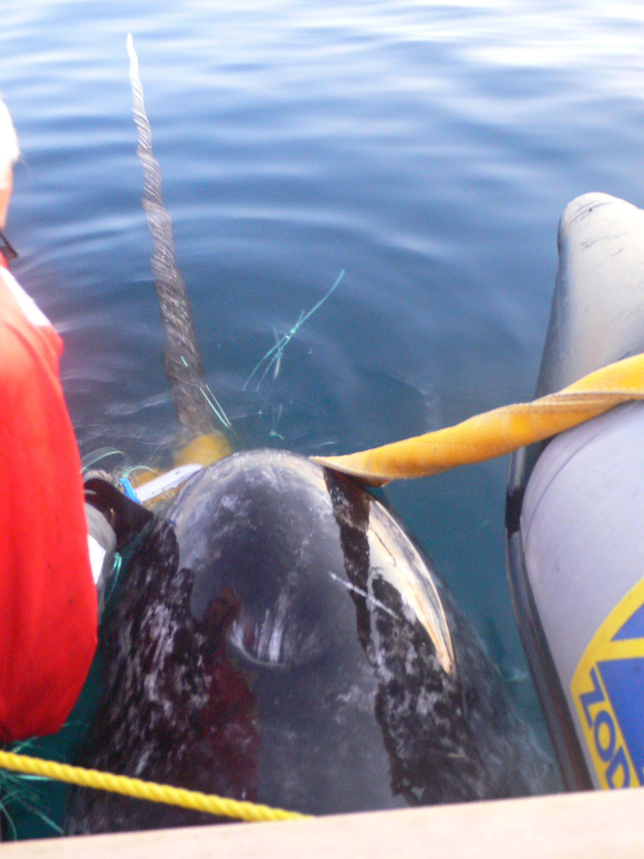 Photo of male narwhal captured and satellite tagged.